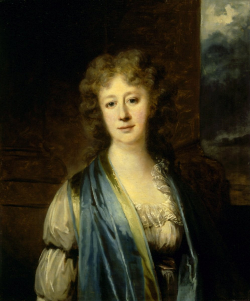 Portrait of Hedvig Eva De la Gardie née Rålamb (1747-1816)